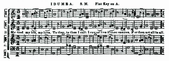 Tune Idumea as it appeared in the 1816 Kentucky Harmony by Ananias Davisson.